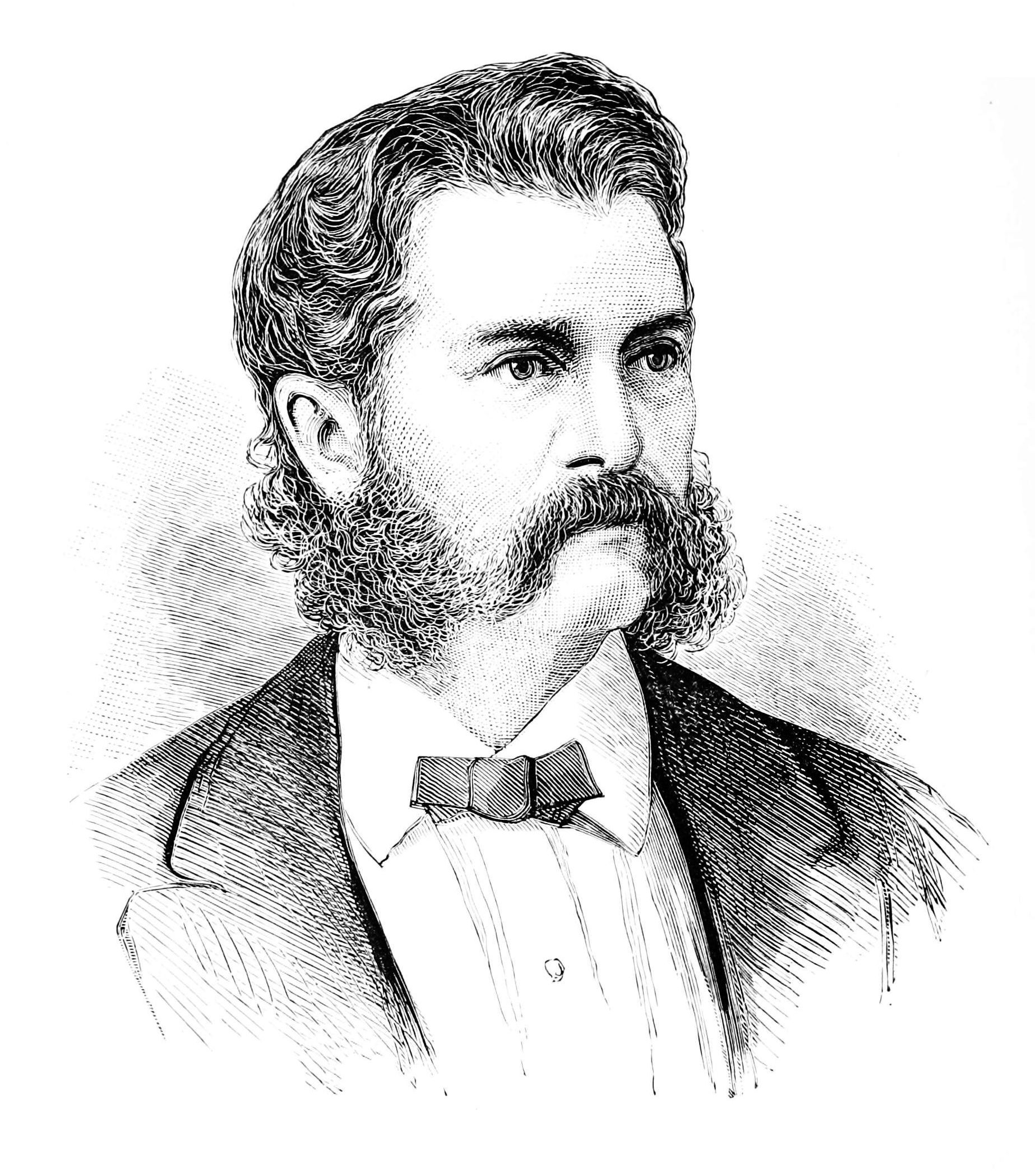 Simon Newcomb